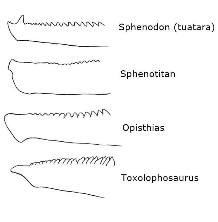 The lower jaws of several rhynchocephalian genera, including Sphenodon and several opisthodonts.